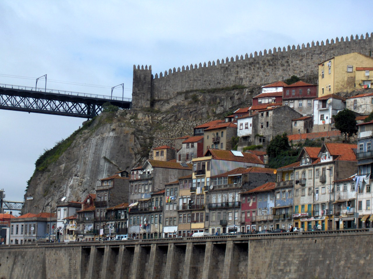 Ribeira and the city walls; Porto, Portugal